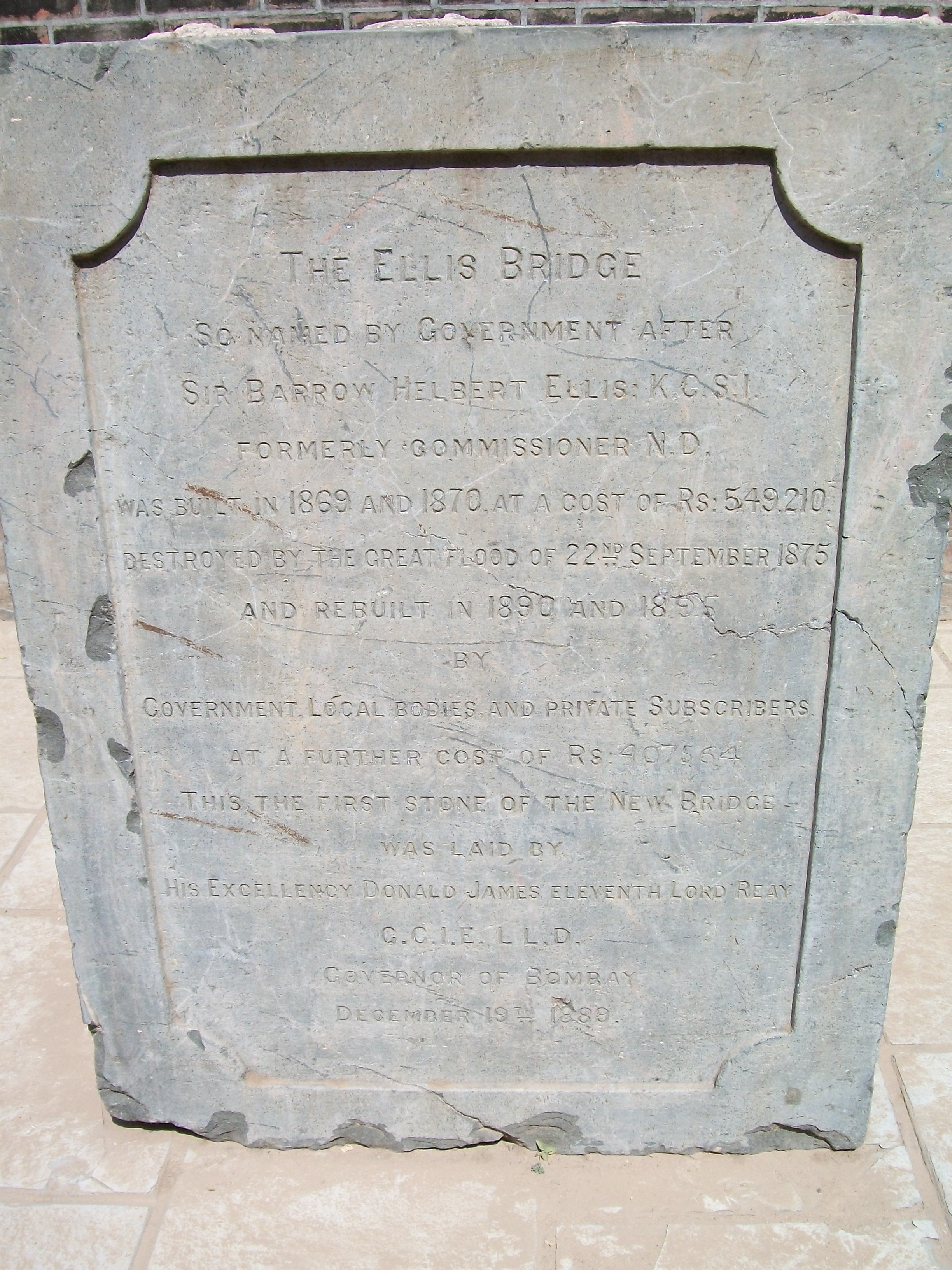 Foundation Block of Ellis Bridge, Ahmedabad. Now at Sanskar Kendra Museum.